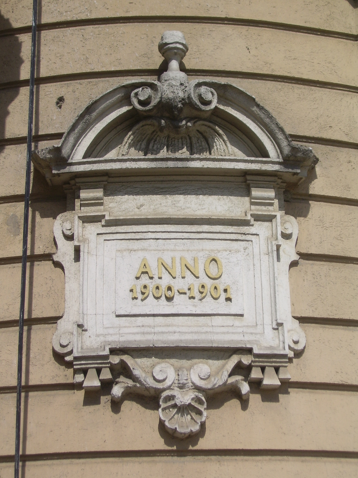 Years of the construction on the facade of Tóth-palota in Szeged